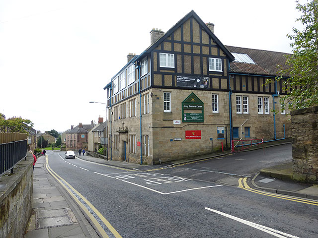 Army Reserve Centre, Hexham